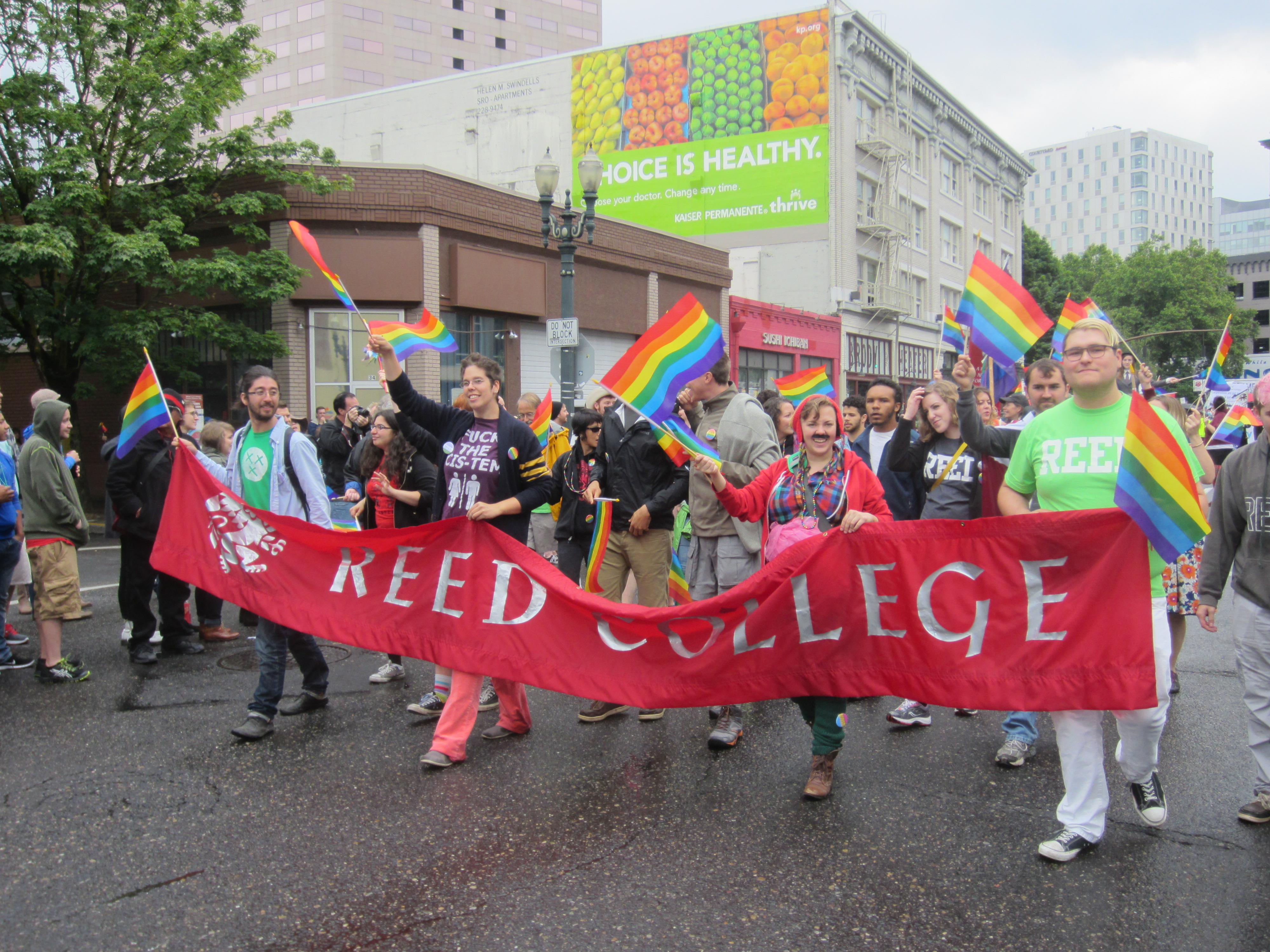 Portland Pride Parade (Oregon), June 14, 2014